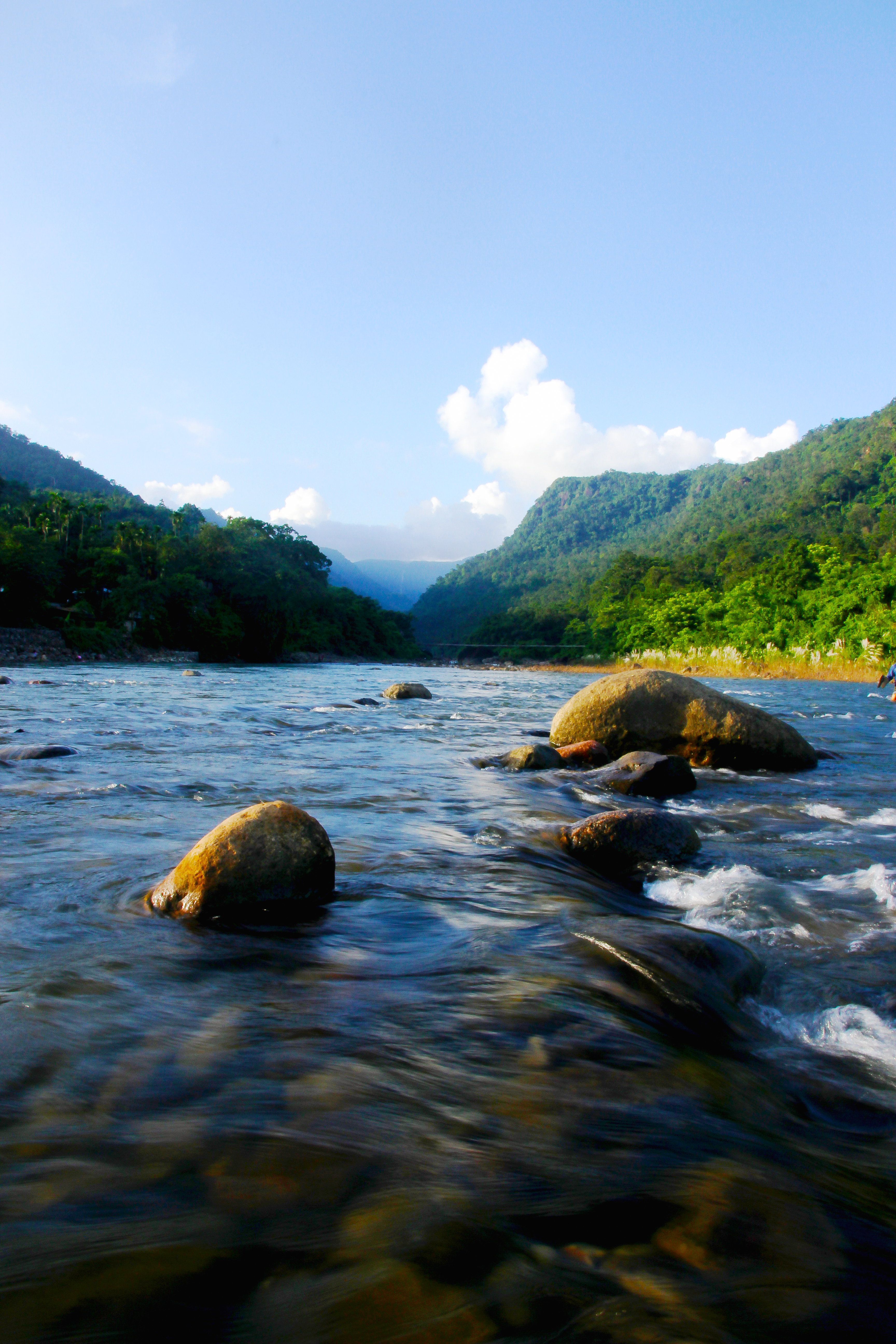 Location : Bichnakandi , Sylhet